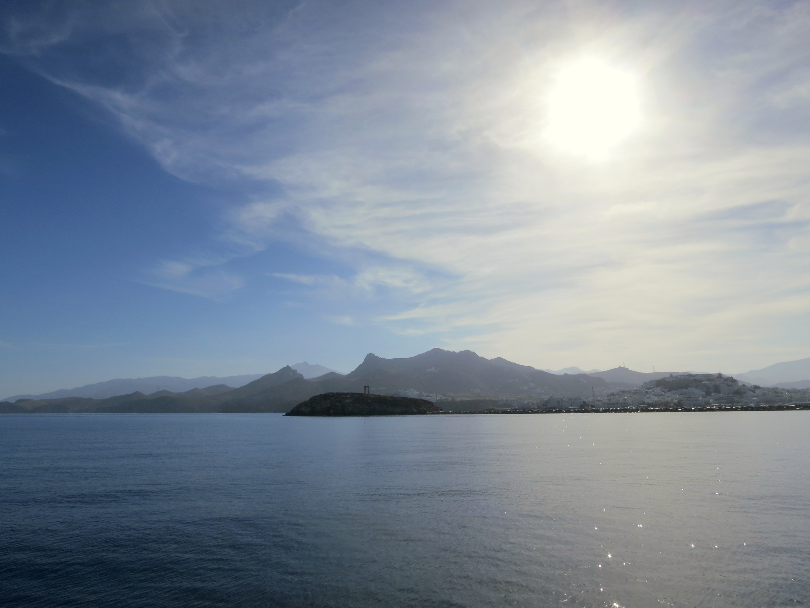 Arrive on Naxos. The islet Palatia, Chora of Naxos and mountains.